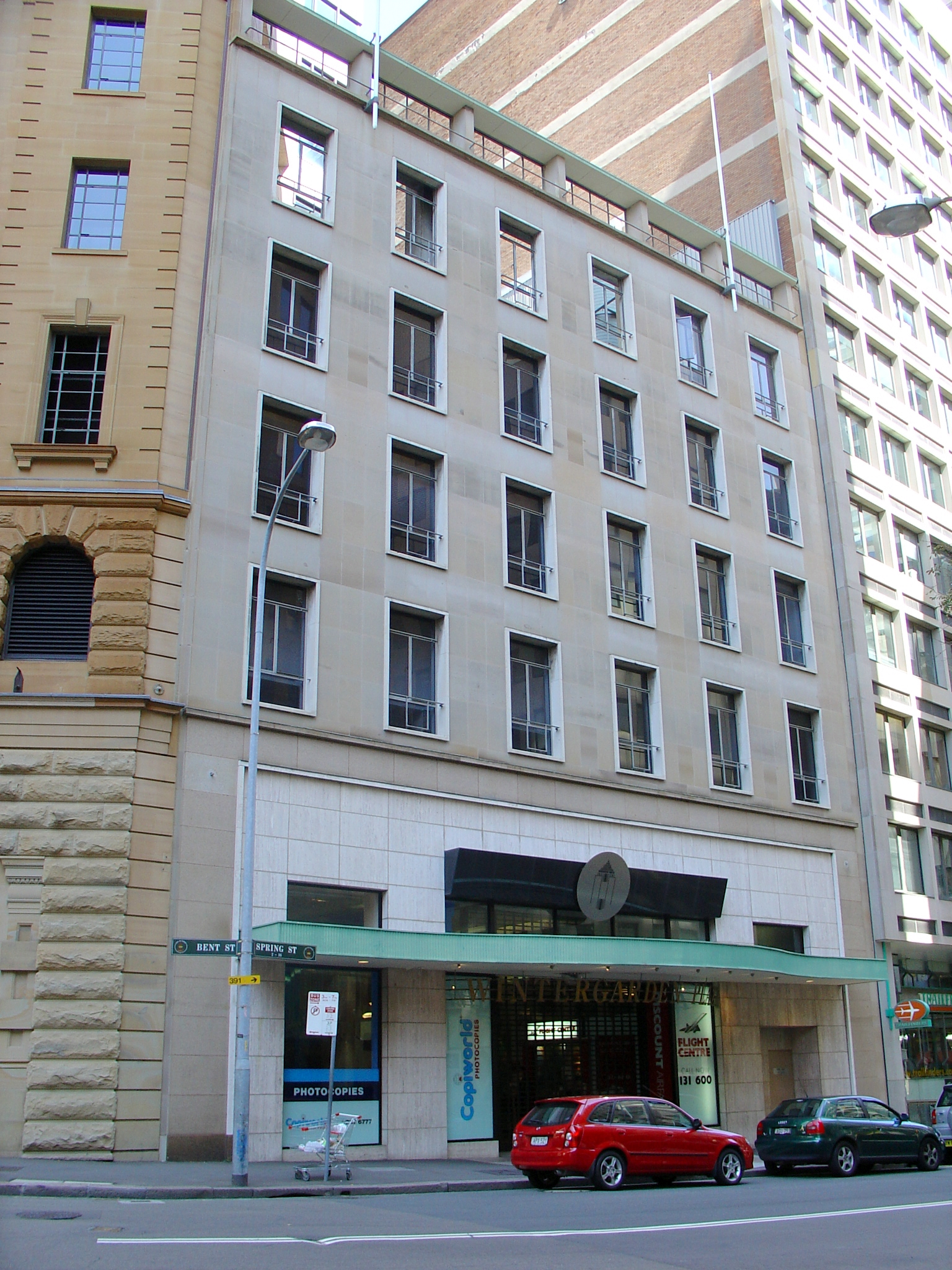 Orient Line Building, 2-6 Spring Street, Sydney NSW. Fowell and McConnel